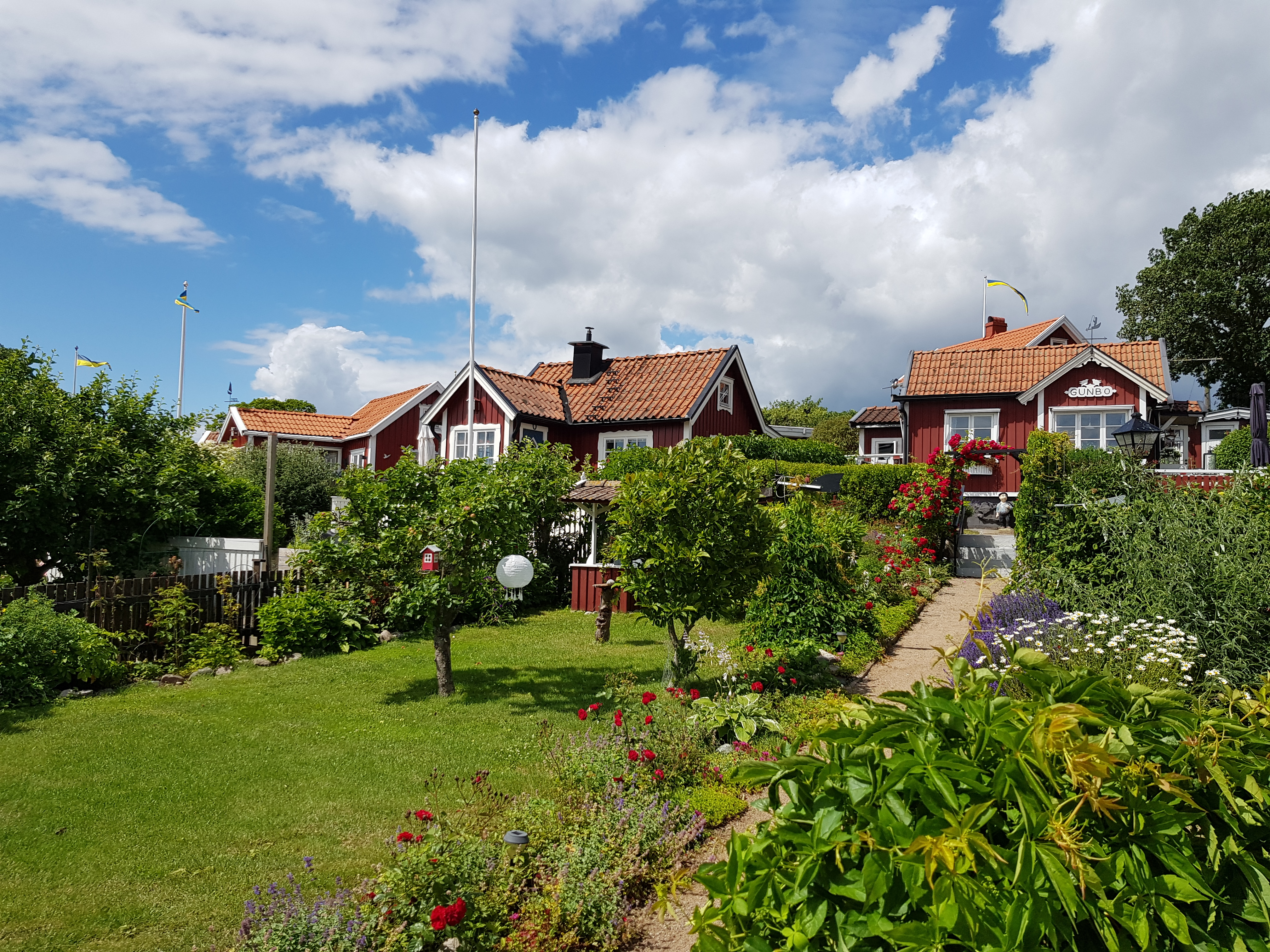 Allotment garden of Brändaholm, Karlskrona in Sweden.